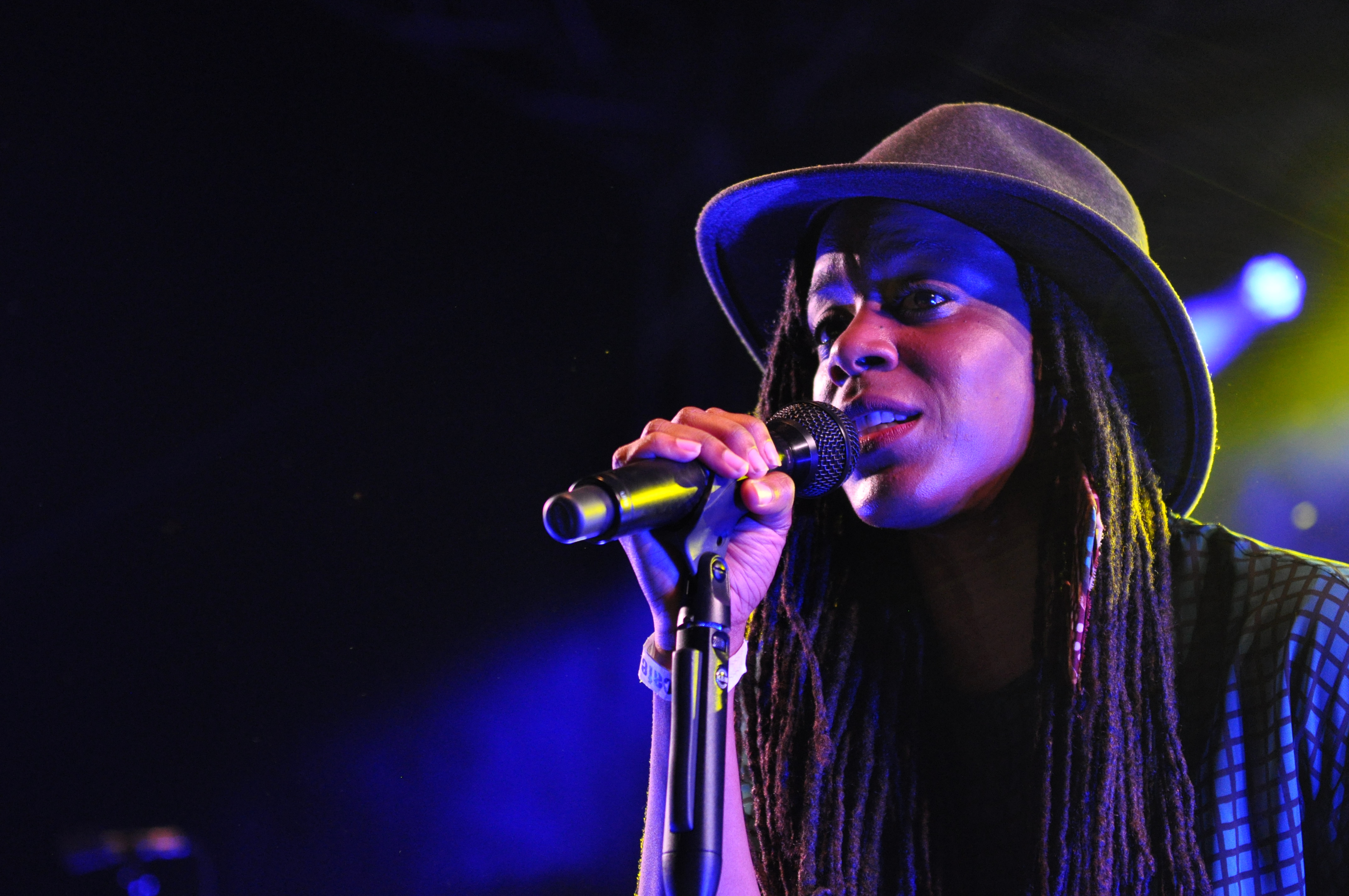 Akua Naru (USA/DEU), World Music Festival Horizonte 2015, Fortress Ehrenbreitstein, Koblenz, Rhineland-Palatinate, Germany Festivalsommer This photo was created with the support of donations to Wikimedia Deutschland in the context of the CPB project "Festival Summer".